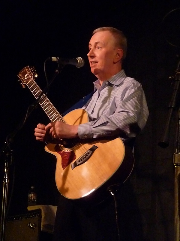 Singer-song writer Al Stewart performing live at McCabe's Guitar Shop in Santa Monica, California.